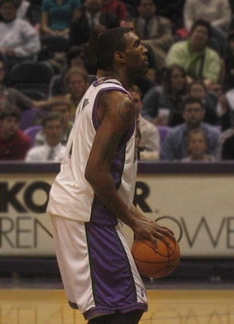 Joe Smith of the Milwaukee Bucks attempts a free throw vs. the Atlanta Hawks March 16, 2006. Smith finished the game with 6 points. [1].